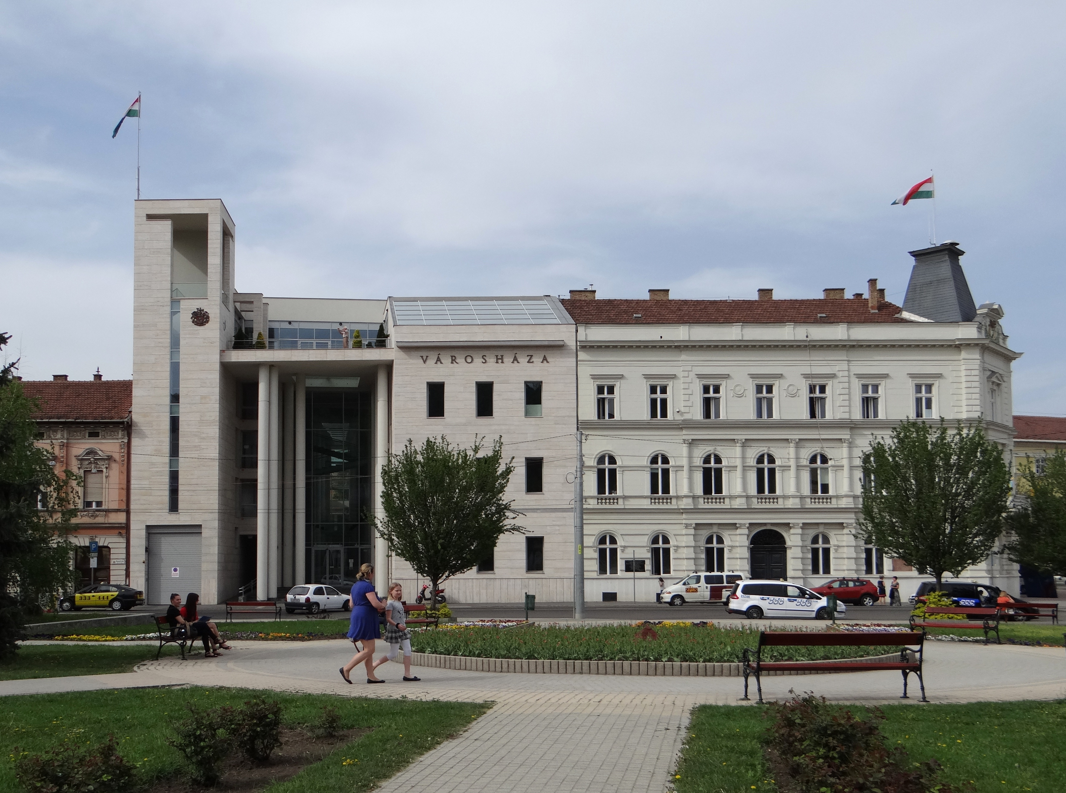 New building of the Miskolc City Hall, Hungary